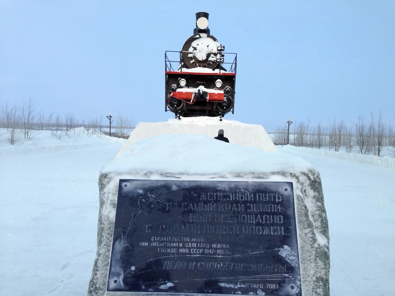 Memorial to builders of 501 Railroad.